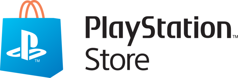 PlayStation Store logo